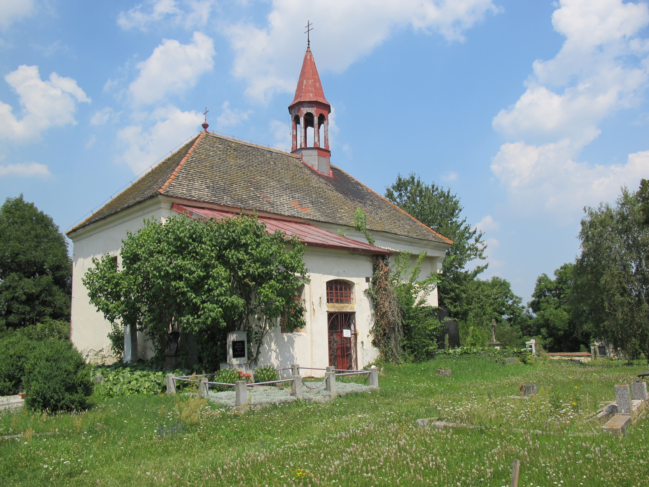 Church in Skupice